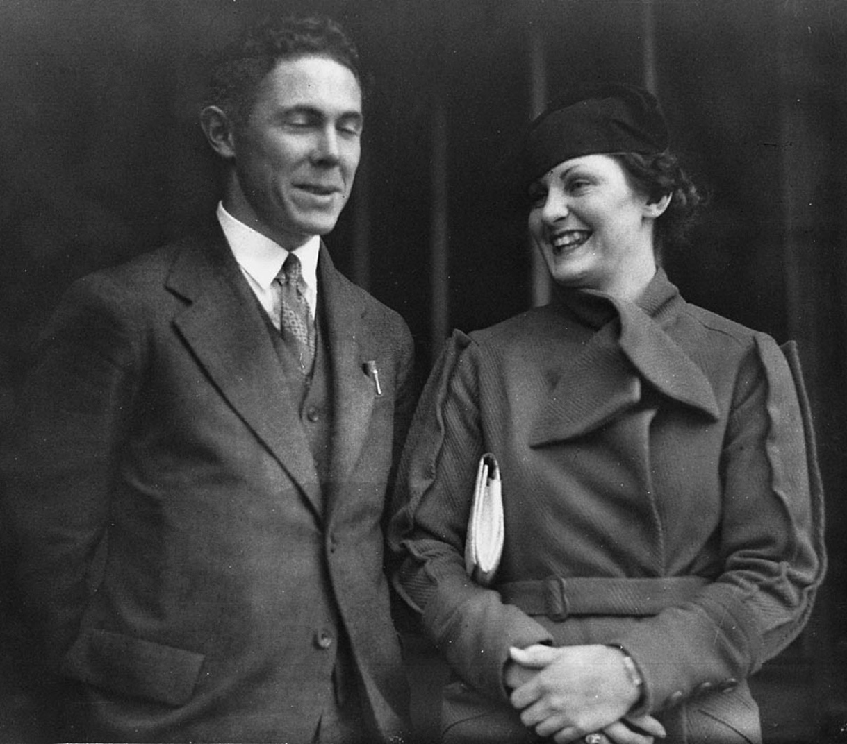 Clare Dennis on the steps before leaving for the Empire games, Sydney Town Hall, 1934